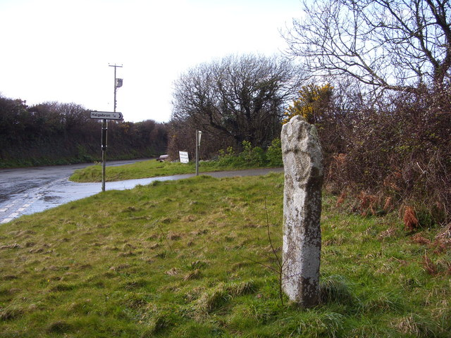 Cornish Cross at Fenterleigh. Halgabron is down the road to the right.